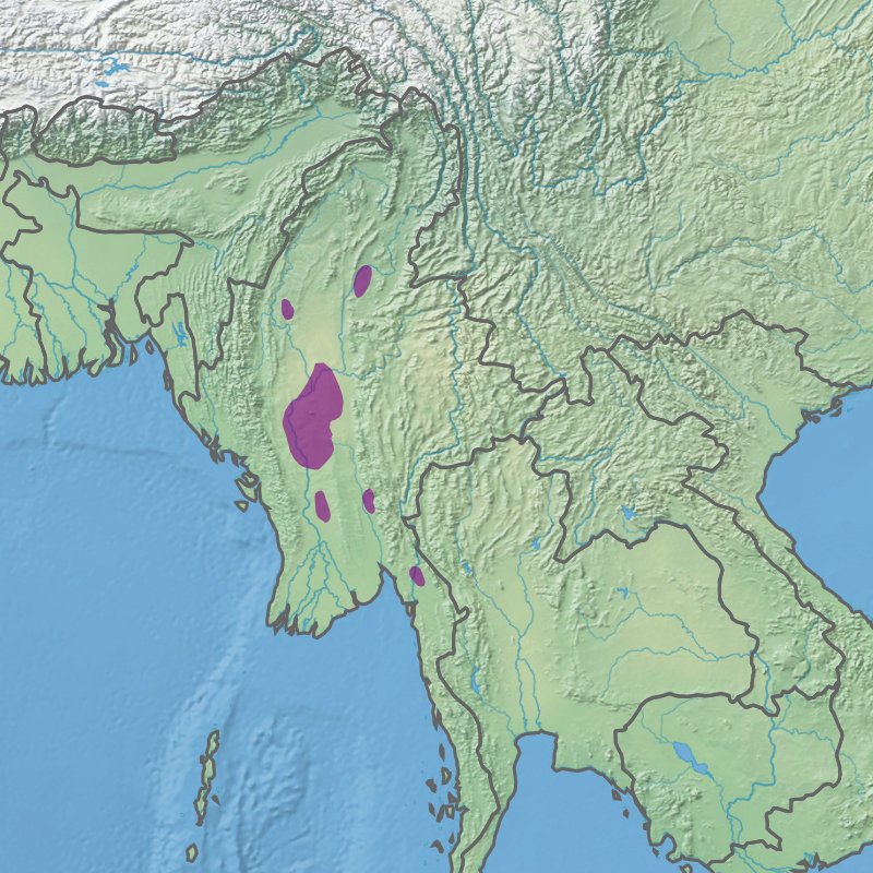 Ecoregion IM0205 - Irrawaddy dry forests (in purple)